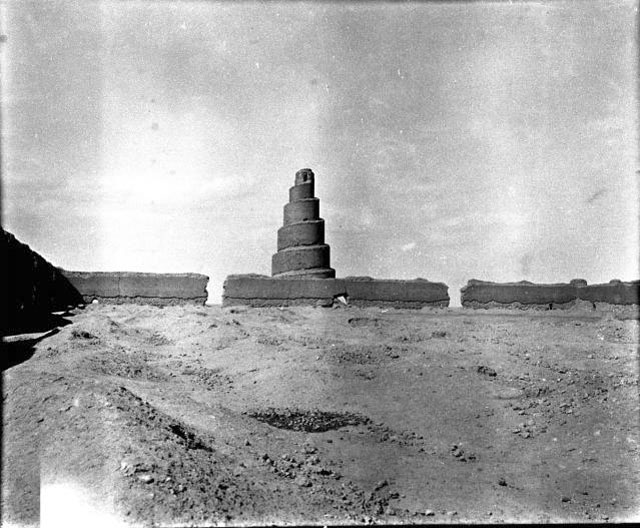 Jamiet el Kebir, Samarra. N wall [Great Mosque of al Mutawakkil - view N from interior of enclosure towards N wall and Malwiya - minaret] more details